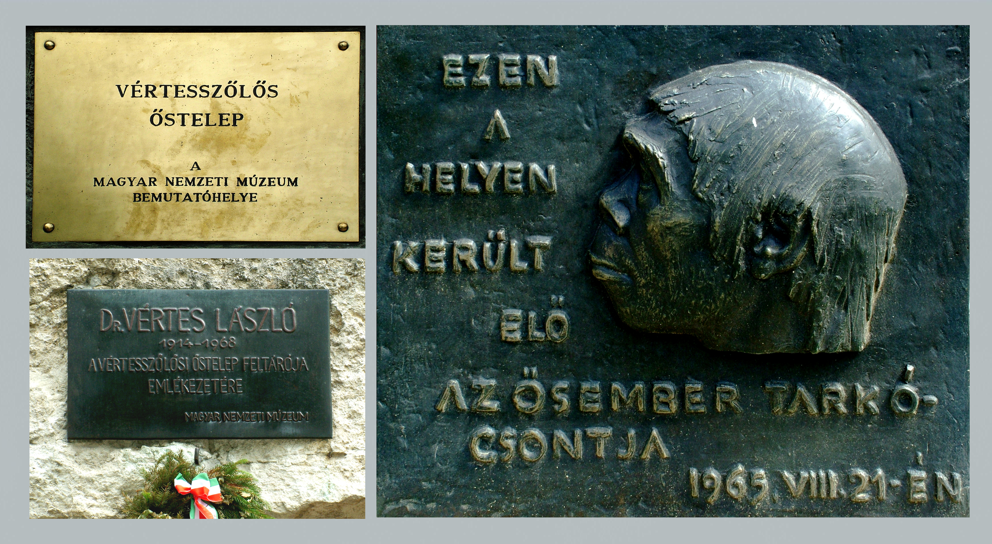 Ancient Human Sites Vértesszőlős